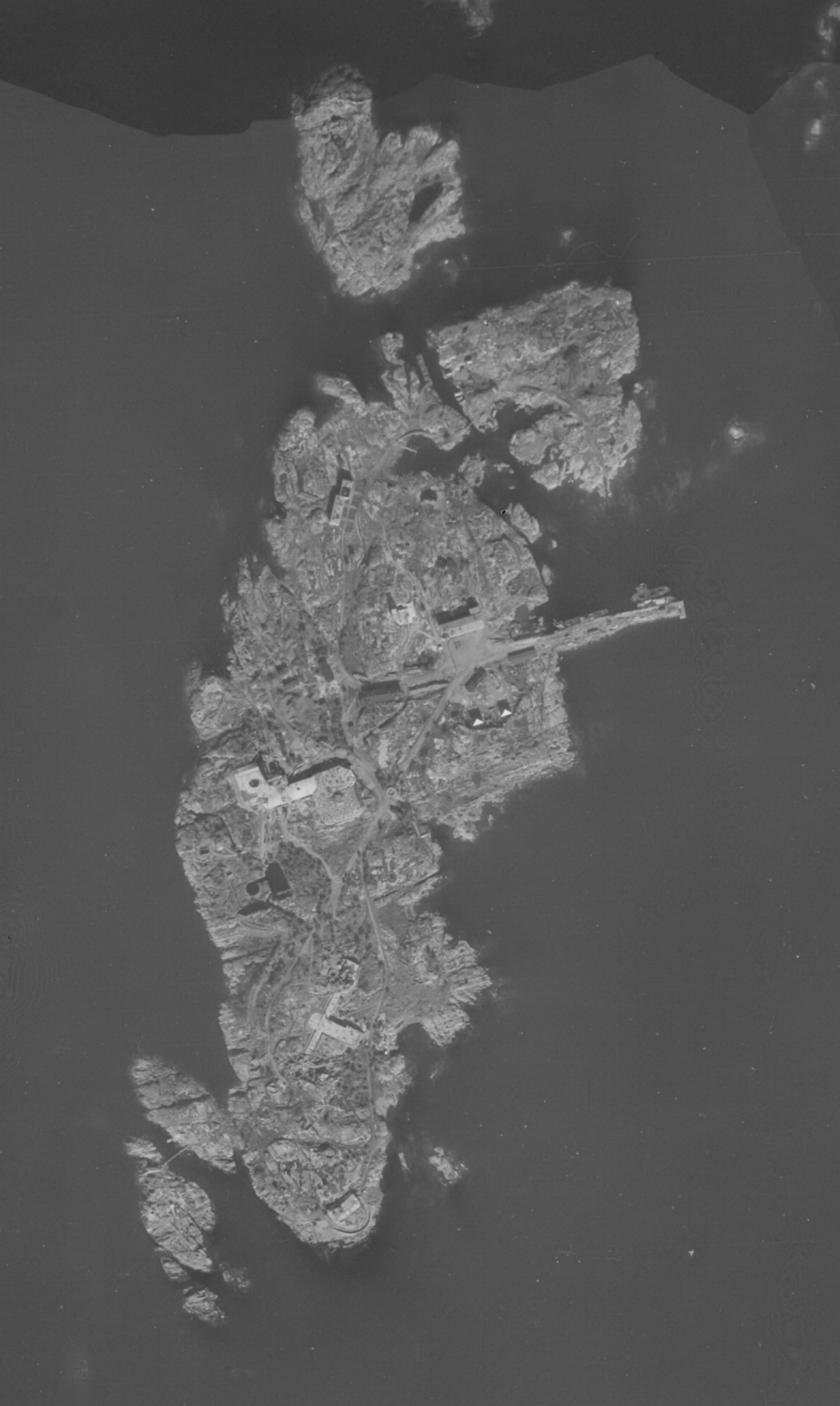 Mäkiluoto fortress in the Porkkala archipelago in Kirkkonummi, Finland. The image is built from orthoimagery from 1944 that was taken just prior the area was handed to the Soviets. The 12 inch turret and the concrete fire control tower were intact at the time of the handoff, but the Soviets destroyed both of them prior to returning the fort in 1956.